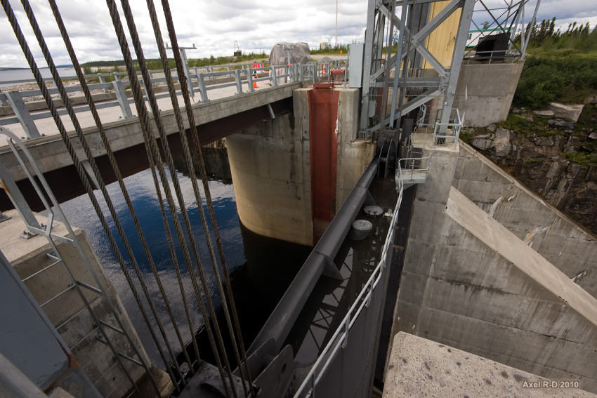 Caniapiscau Spillway